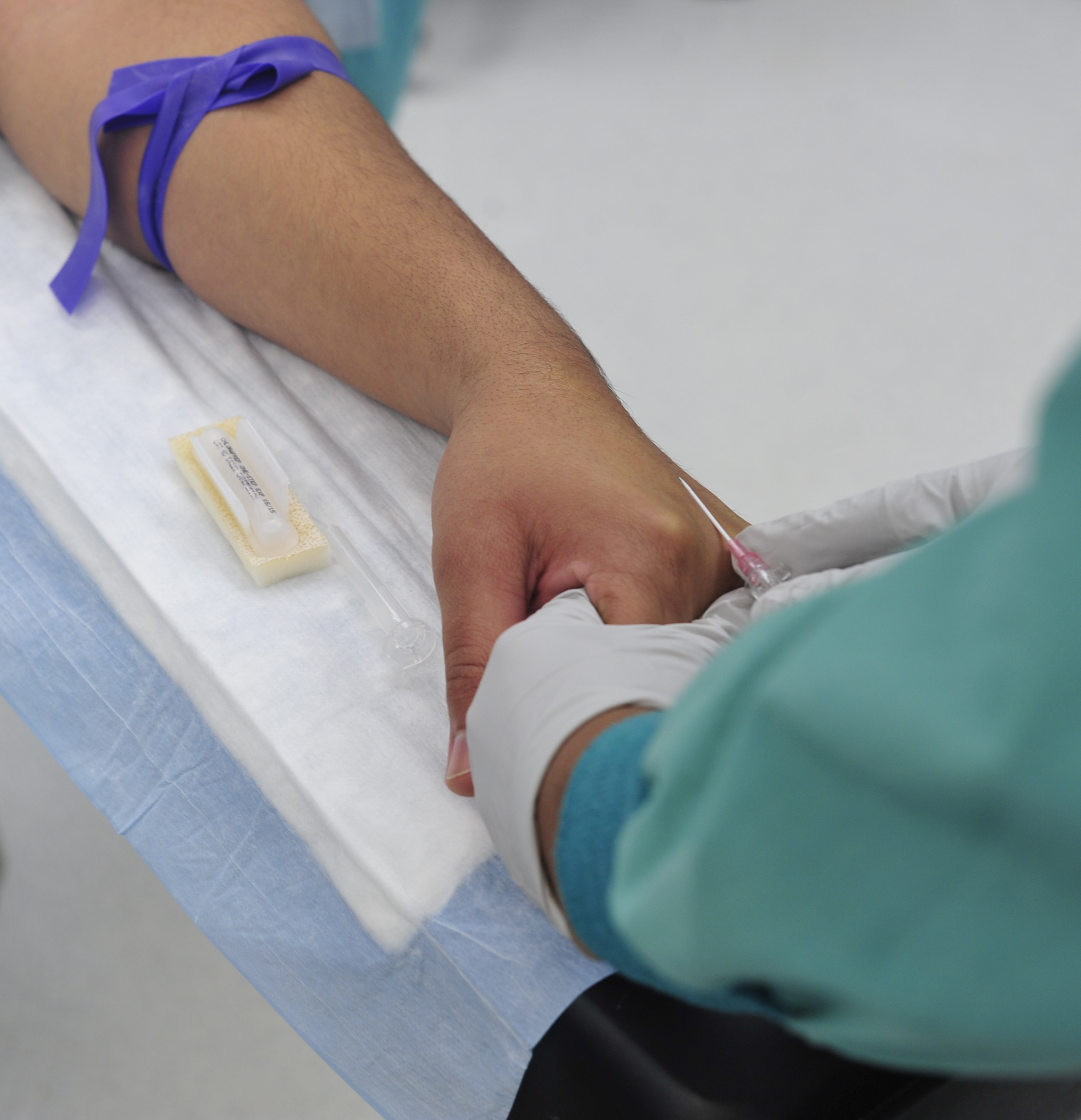 Capt. Angela Pettis, 779th Medical Group registered staff nurse anesthetist, simulates inserting an IV into a patient's hand Feb. 12, 2013, on Joint Base Andrews, Md. Wounded service members from down range as well as active duty, Guard, Reserve, retirees and dependents resigning in the NCR are patients at MGMC. (U.S. Air Force photo/ Airman 1st Class Erin O'Shea)